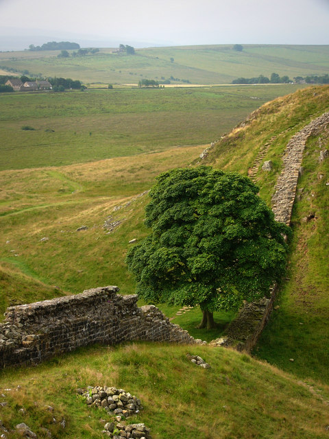 Hadrian's Wall, Sycamore Gap